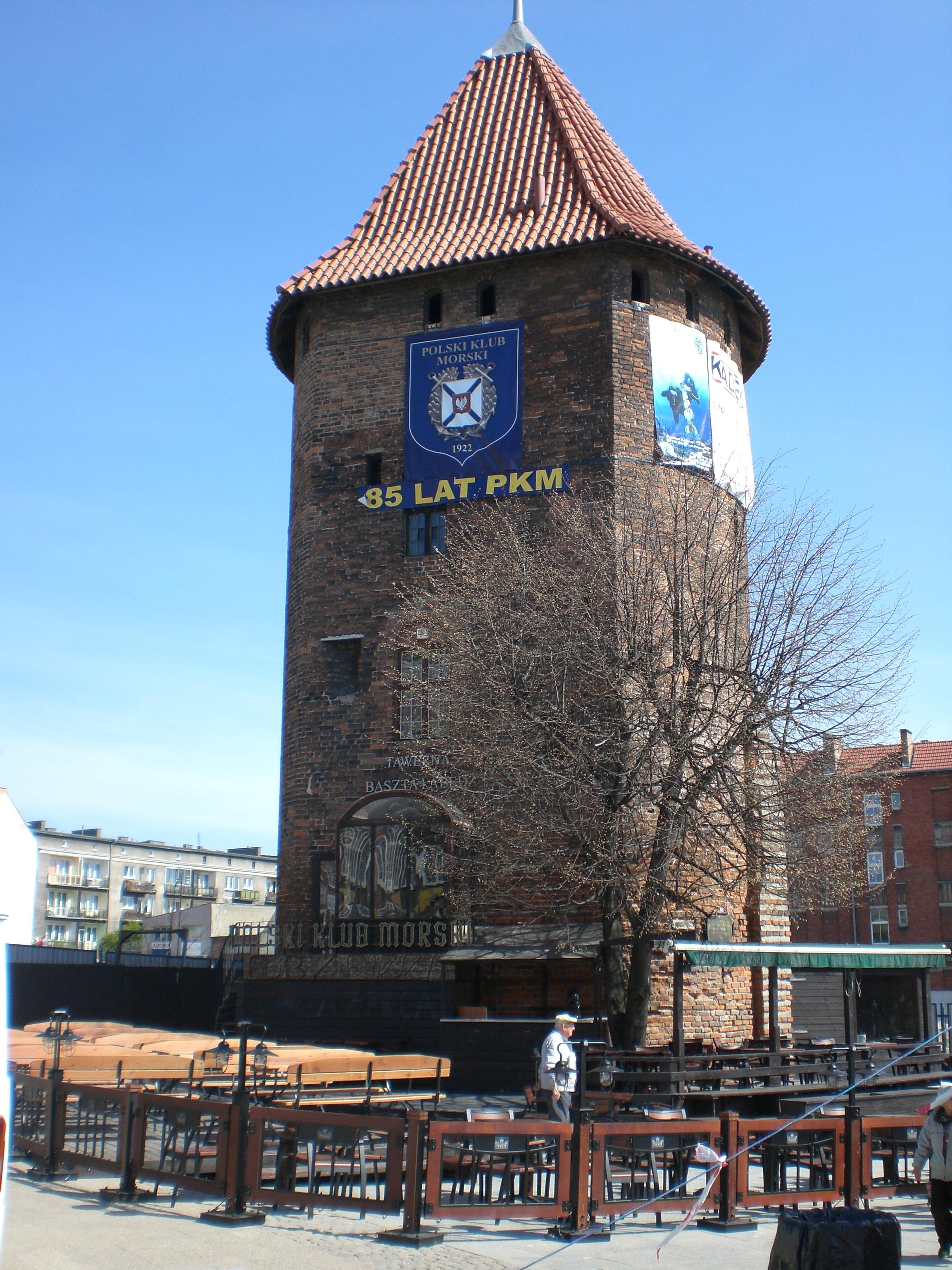 Swan Tower in Gdańsk